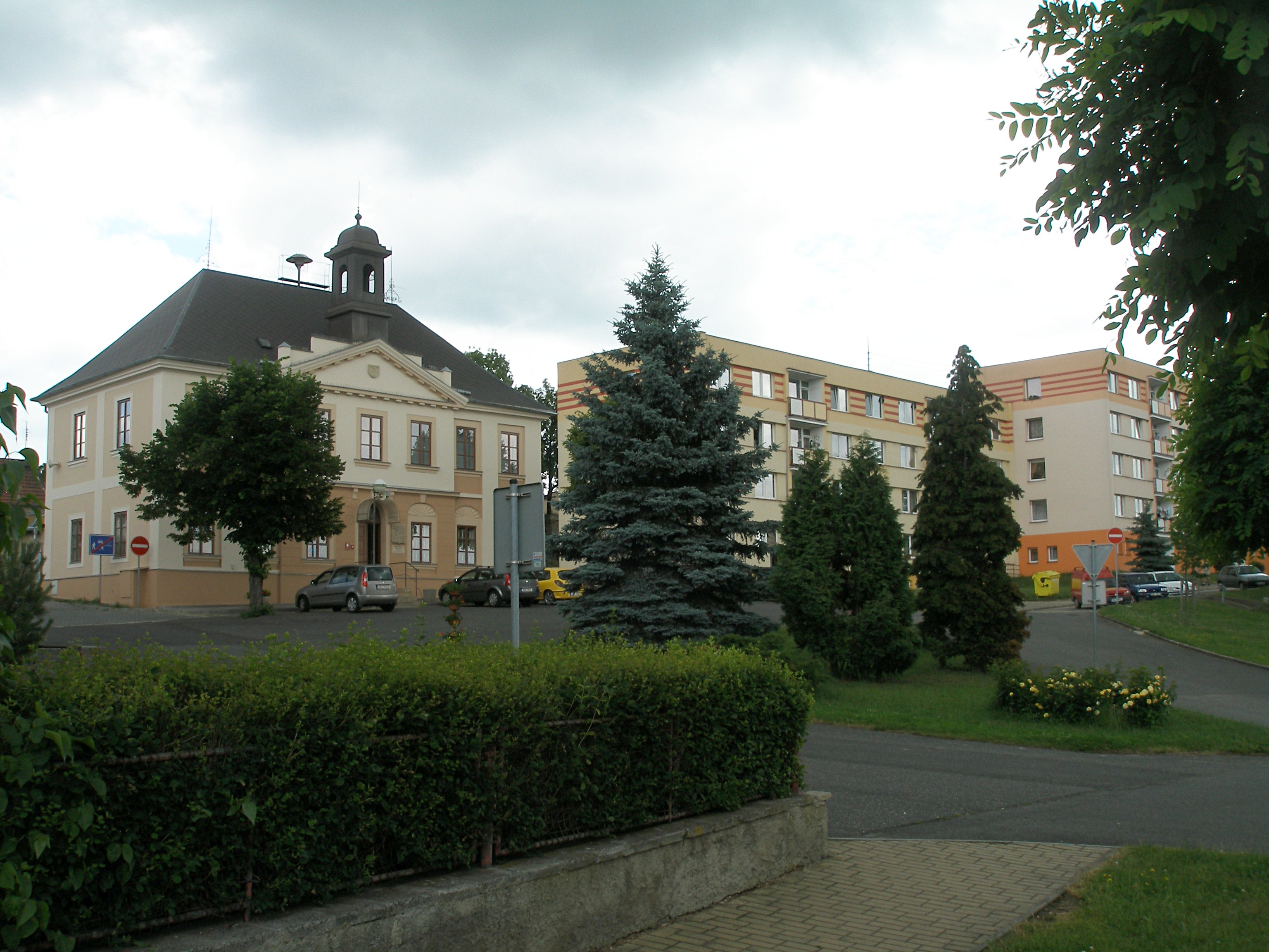 North-Eastern side of the square with the city hall in Březno (Chomutov District)